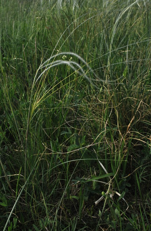 Stipa pulcherrima